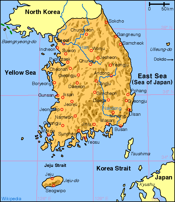 This is a map of South Korea showing major settlements. The map was drawn by myself (Kokiri).